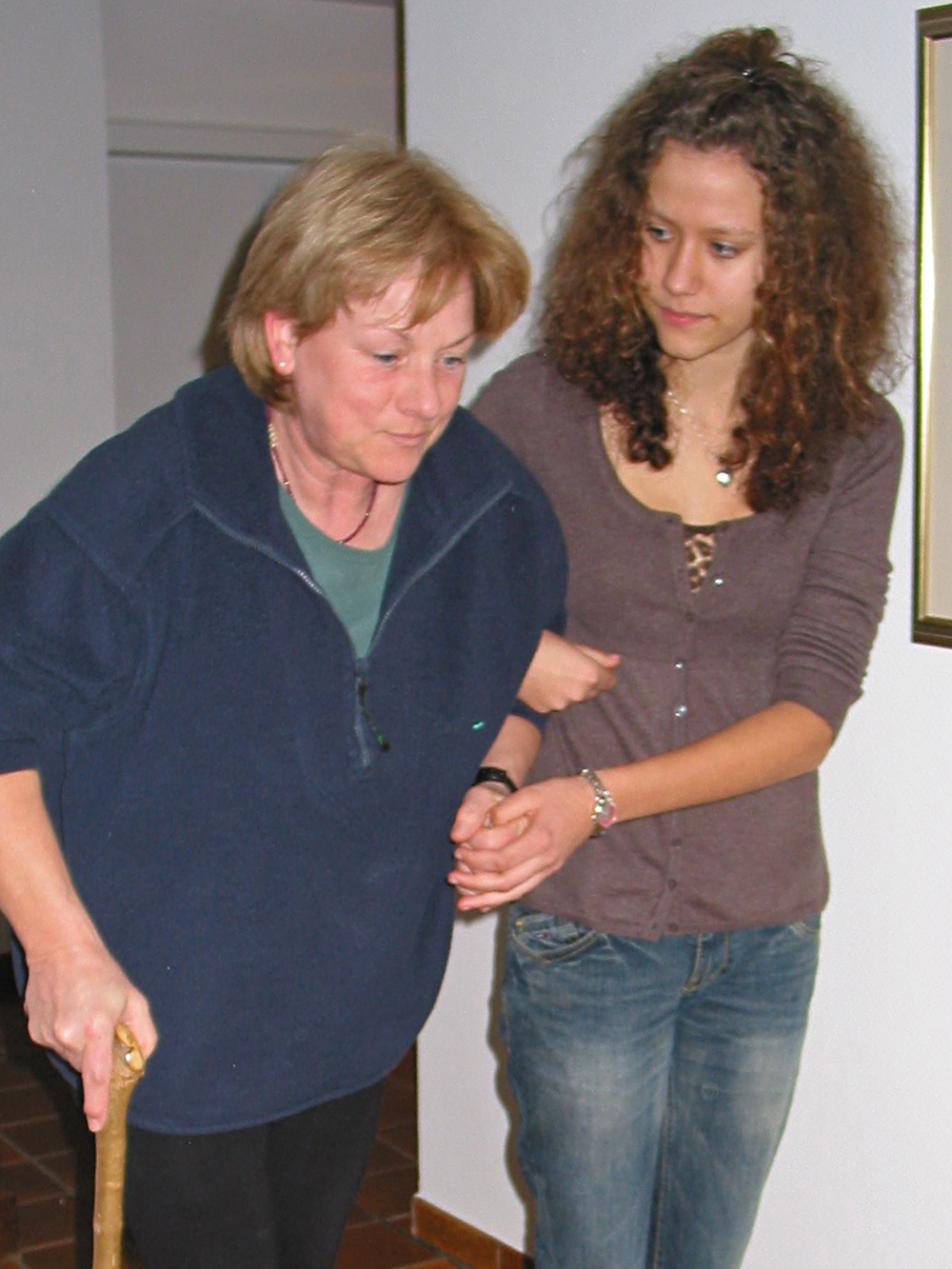 14year old young carer helping her mom